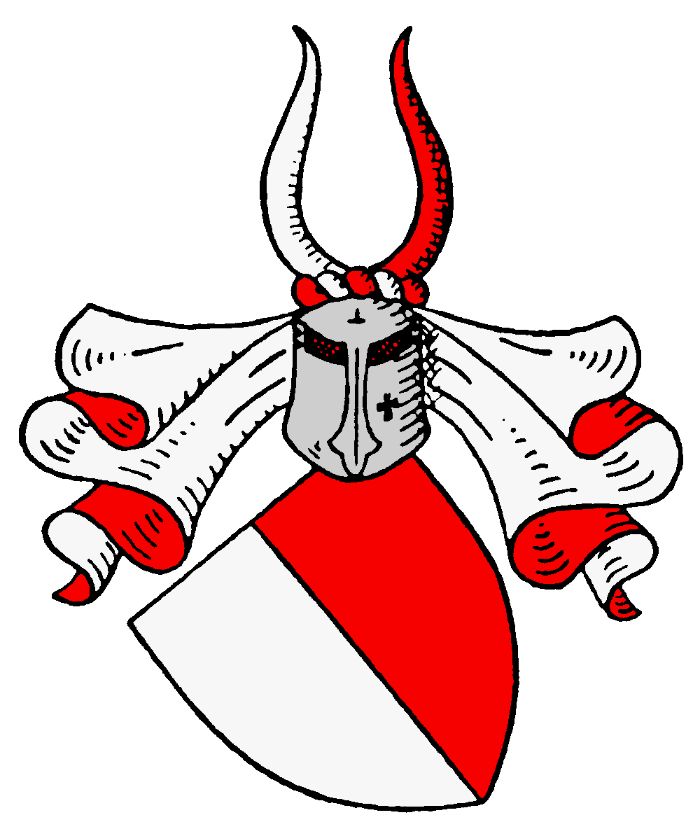 Arms of Rantzau